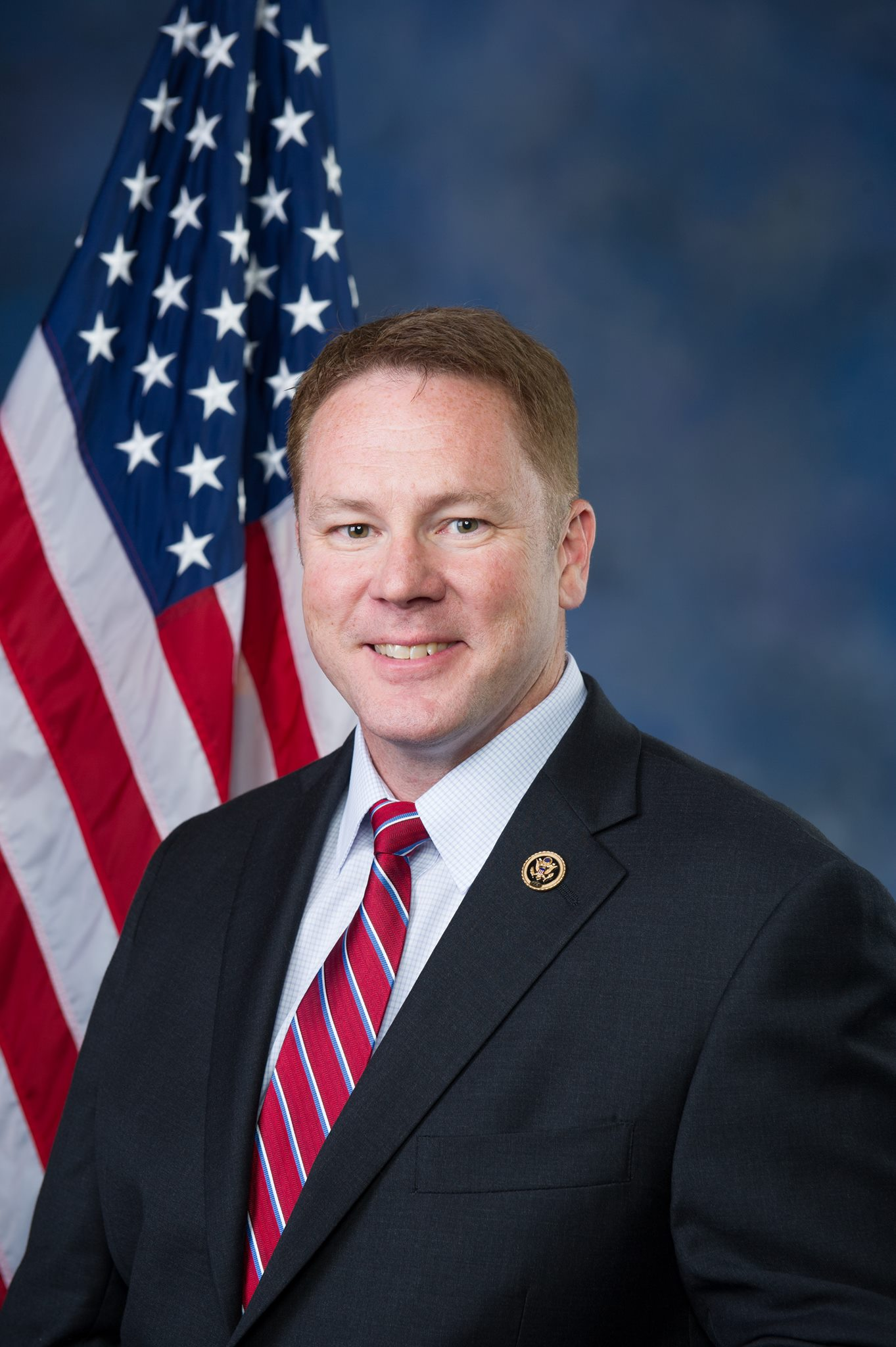 Warren Davidson official photo, 2016